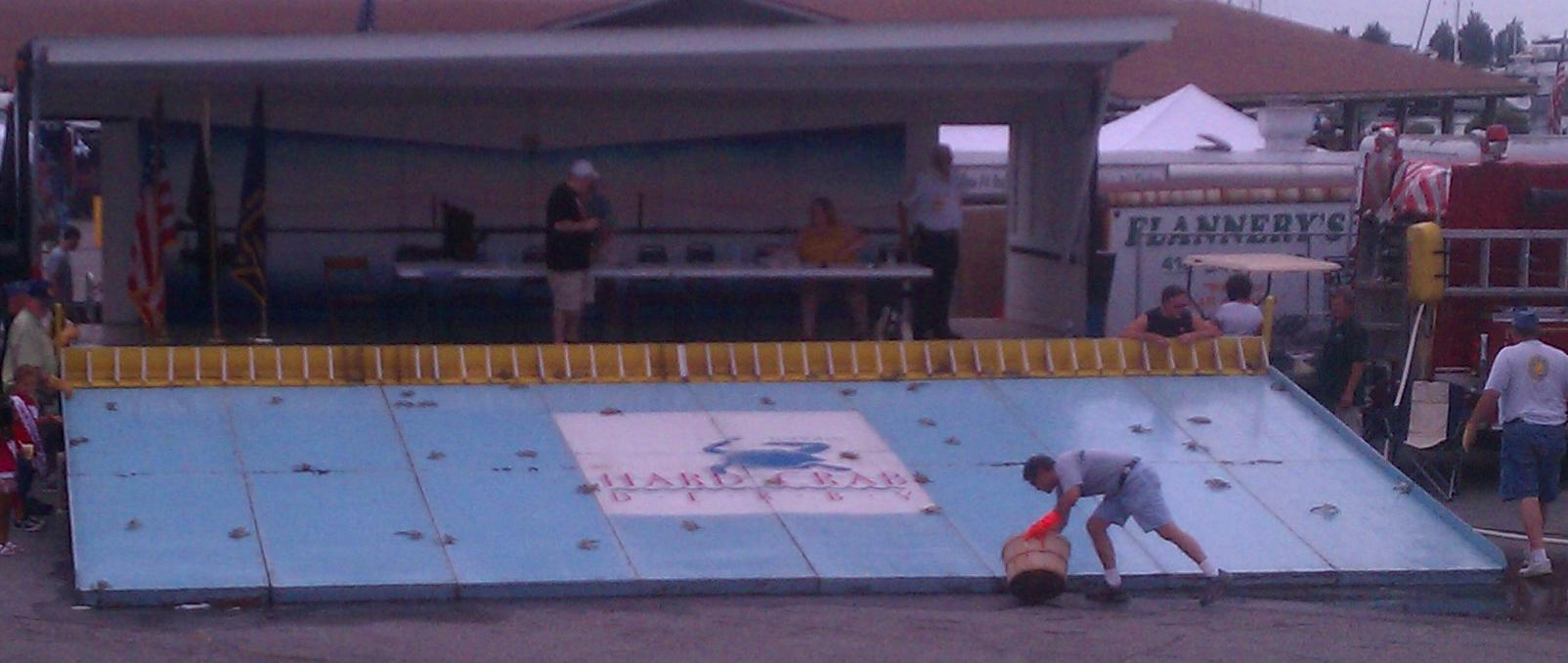 A National Hard Crab Derby race nearing completion.